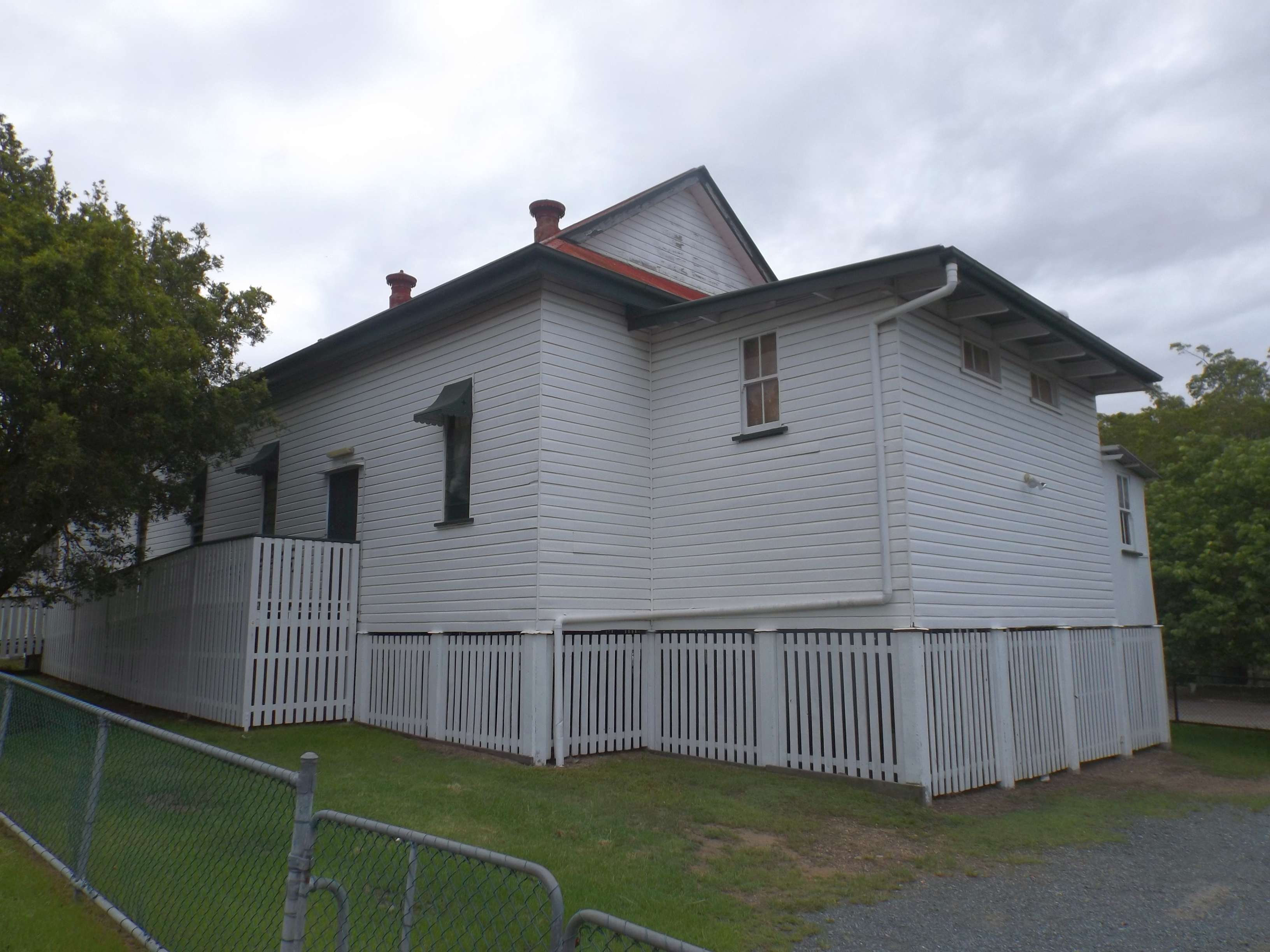 Photo of the rear of the Coorparoo School of Arts and RSL Memorial Hall at Coorparoo, Brisbane, Queensland, Australia.